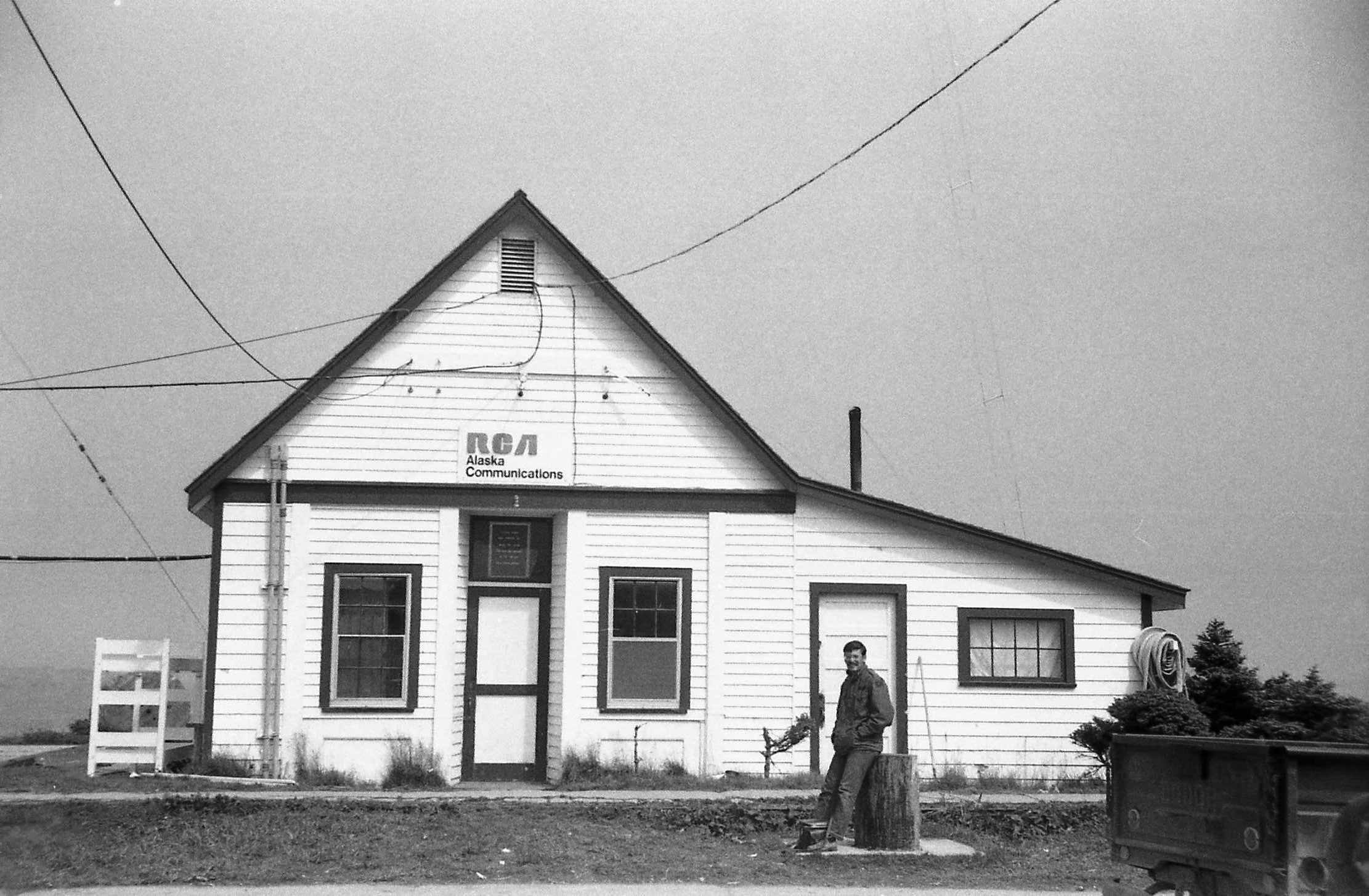 United States, Alaska, Unalaska Island. This was the only public place in Unalaska from which make a telephone call.